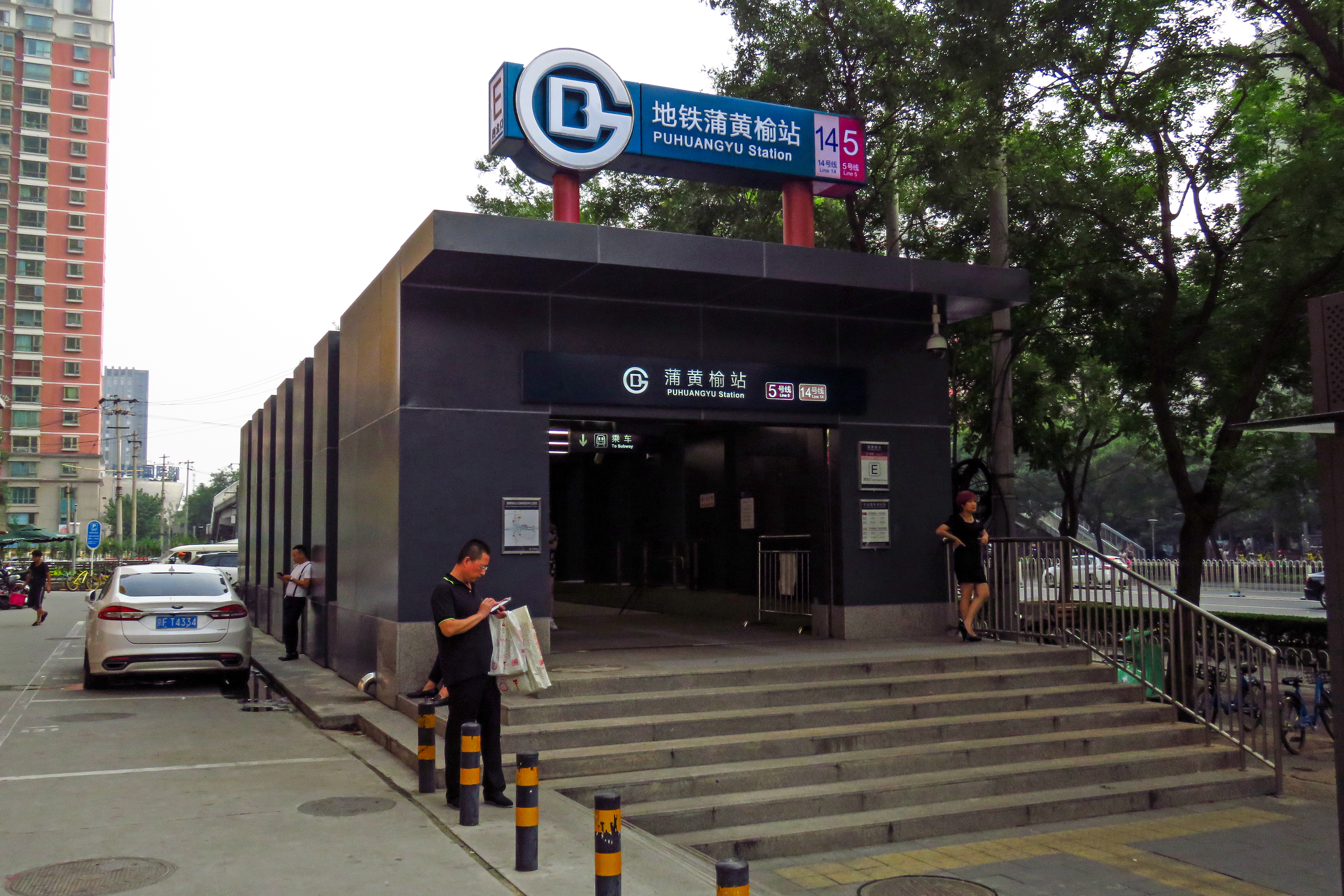 Nothing to do with yellow croakers - finally come here on the ground.